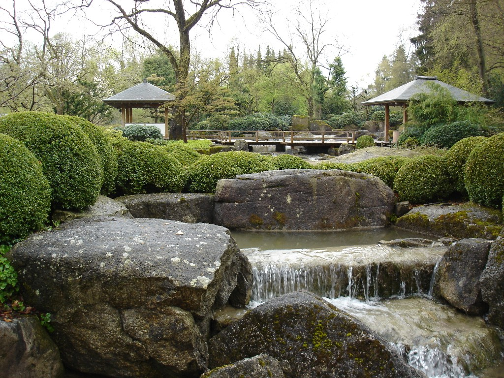 Japanese garden (part of the Botanischer Garten) in Augsburg, Germany